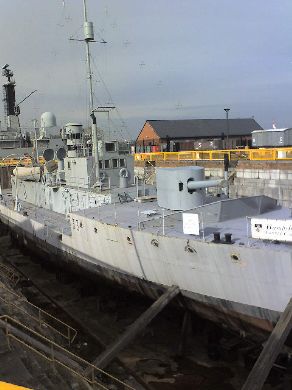 HMS M33, a First World War monitor, in dry-dock in Portsmouth, Hampshire, UK - pending restoration?.